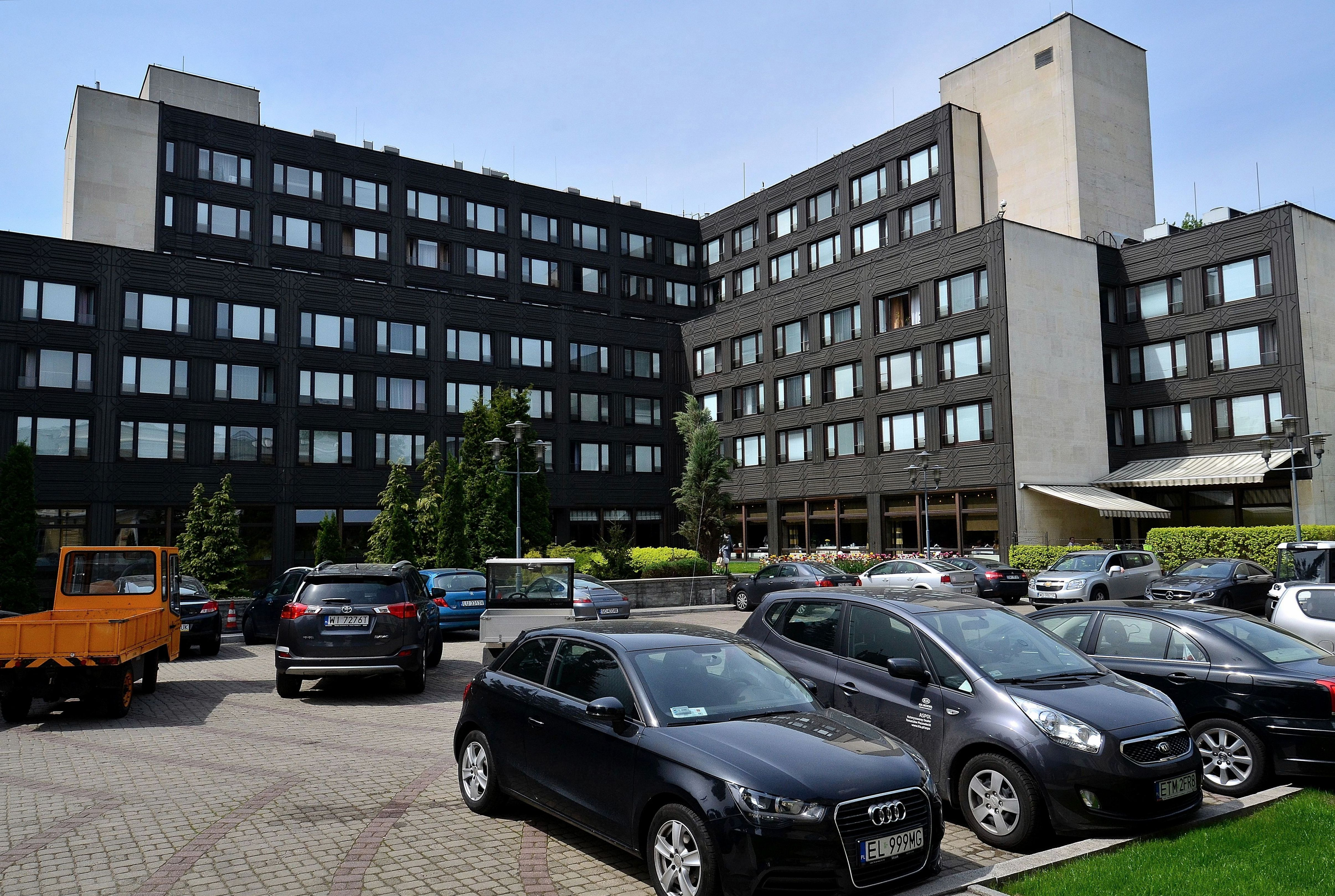 New Deputies' House in Warsaw